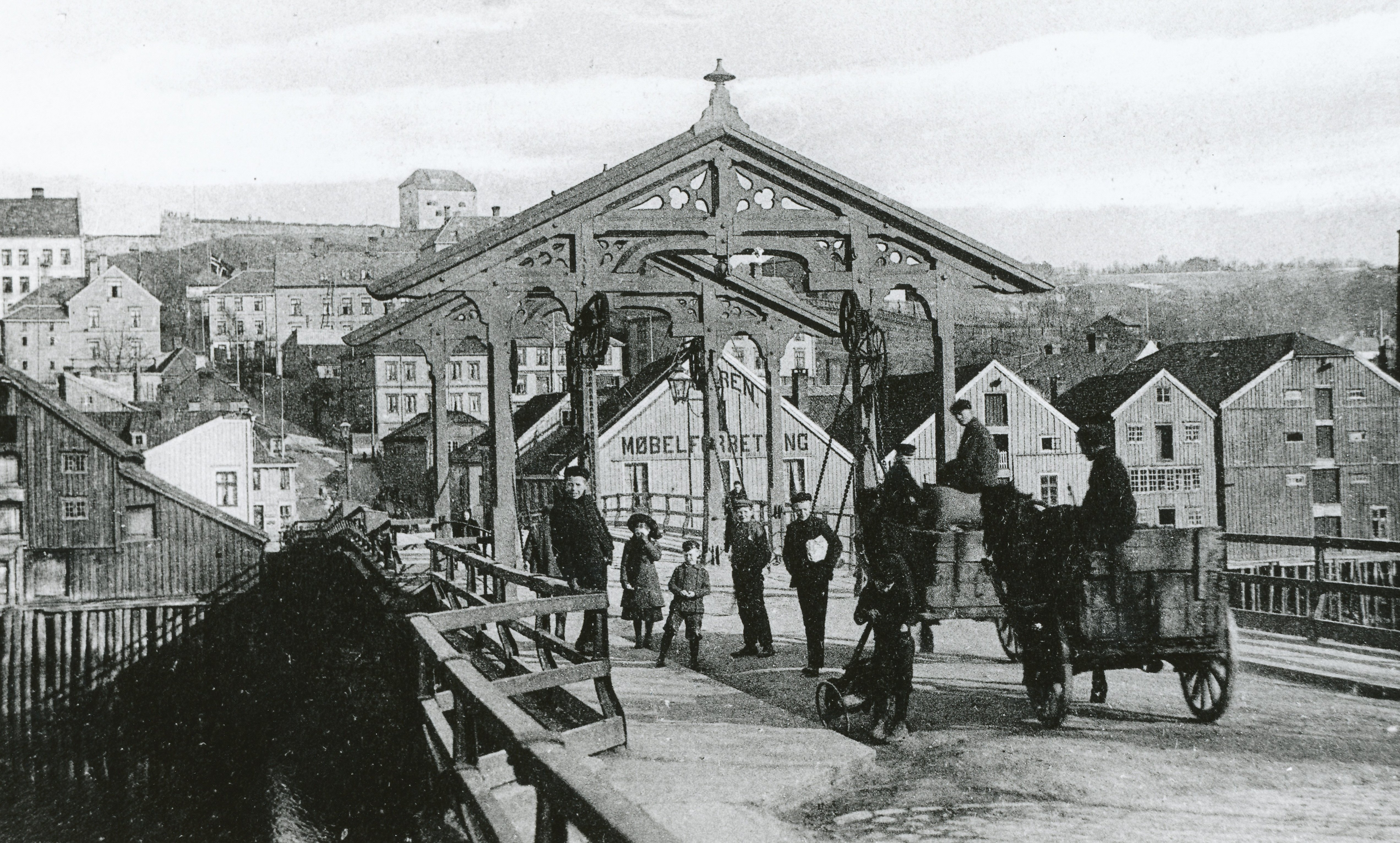 Format: Fotopositiv (Postkort) Dato / Date: Ukjent Fotograf / Photographer: Ukjent Sted / Place: Trondheim Eier / Owner Institution: Trondheim byarkiv, The Municipal Archives of Trondheim Arkivreferanse / Archive reference: Tor.H40.B12.F0684 Merknad: Gamle Bybro med lykkens portal og Kristiansten festning i bakgrunnen.